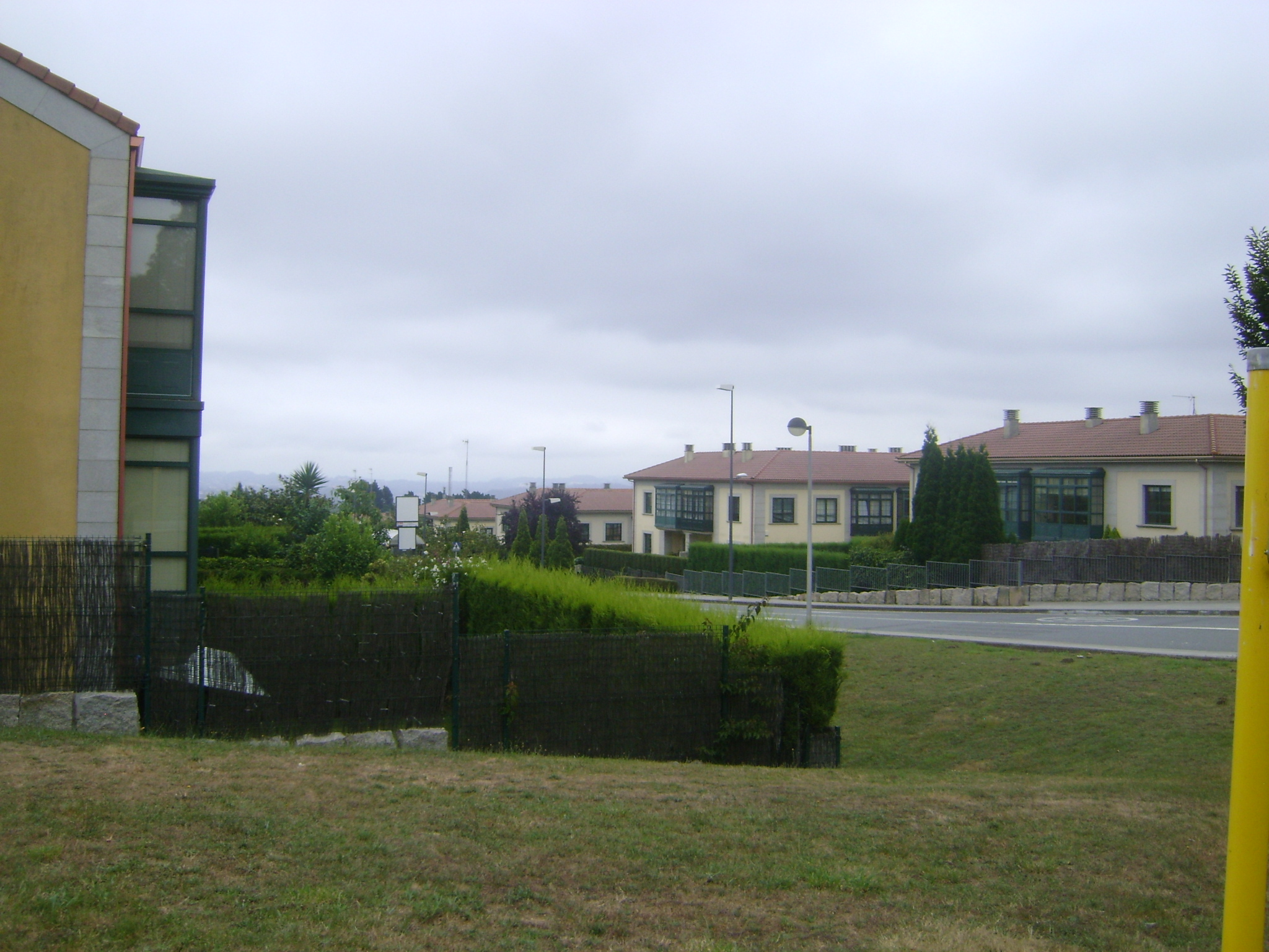 A Zapateira